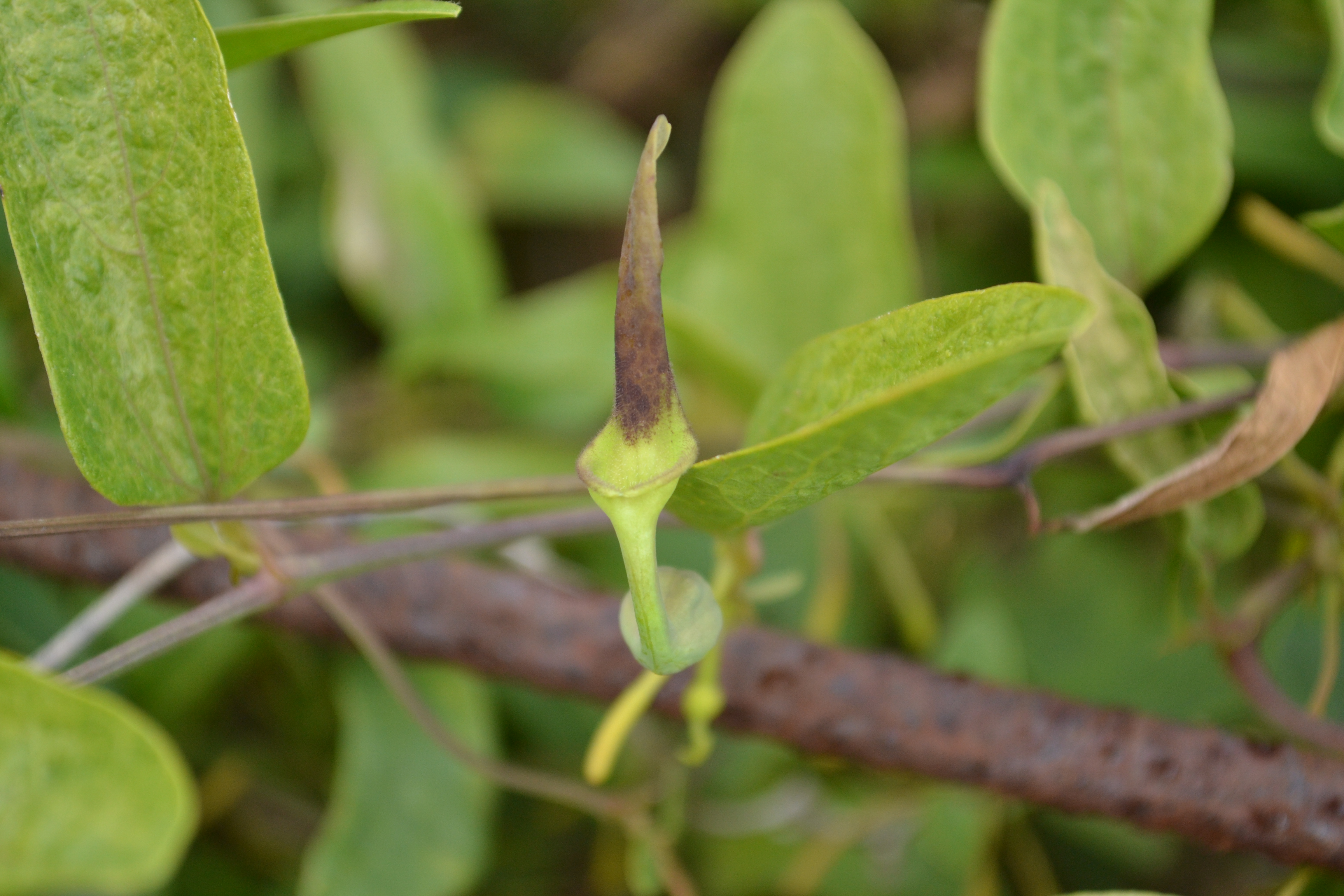 A climber belonging to Aristolochiaceae family.